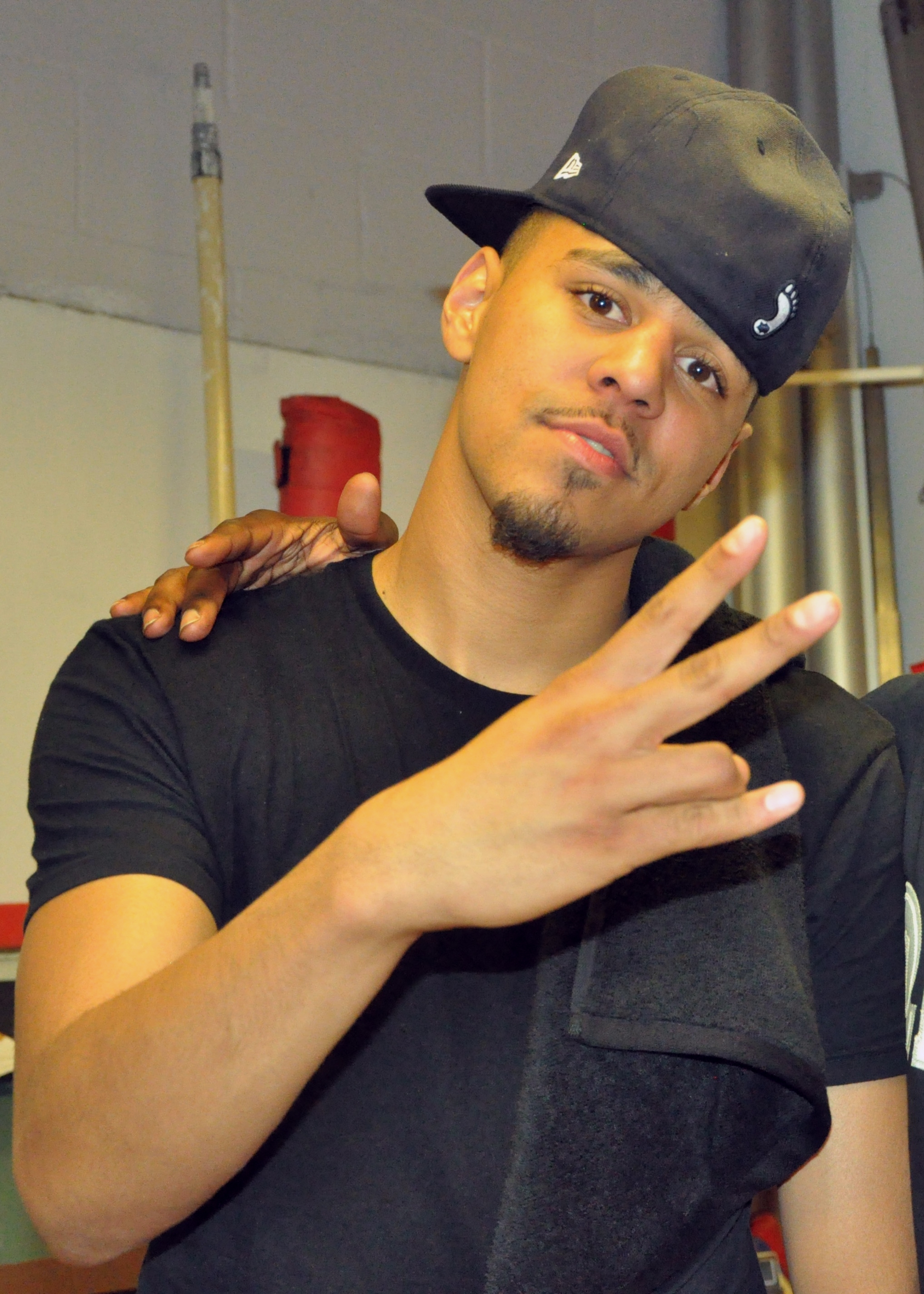 J. Cole and DJ Zeke backstage, St. John's